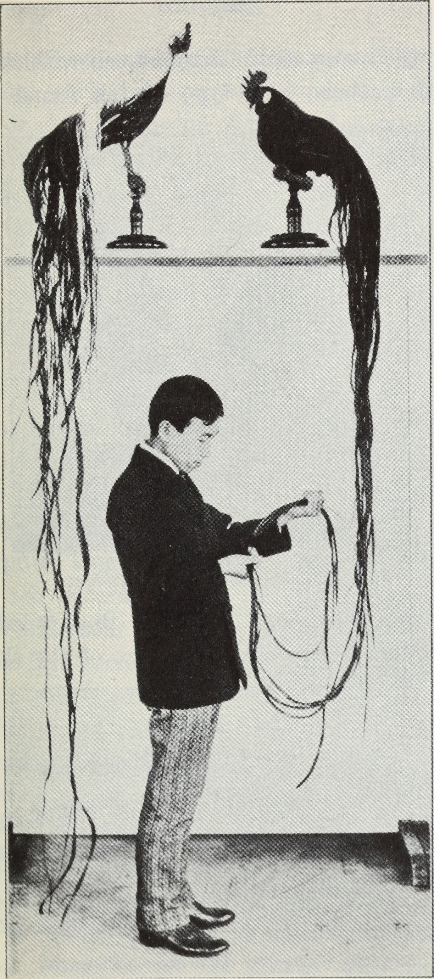 Title: The bird, its form and function Year: 1906 (1900s) Authors: Beebe, William, 1877-1962 Subjects: Birds Birds Publisher: New York : Henry Holt Text Appearing Before Image: Fig. 331.—Male Paradise Whydah-bird showing tail. this excess of nuptial dress, that a person can pick themup in the hand without difficulty. The beautiful tails of pheasants are in harmony withthe wealth of colour which many of these birds displayupon other parts of the body; the long graceful tail of theReeves being especially striking. The folded, roof-shaped tail of the common rooster, Text Appearing After Image: Fia. 332.—Japanese Long-tailed Fowls. (From a photograph provided by theAmerican Museum of Natural History.) 4i7 4i8 The Bird and of his wild ancestors the Jungle-fowl, with the gracefuloverarching feathers, is a type of tail found elsewhere